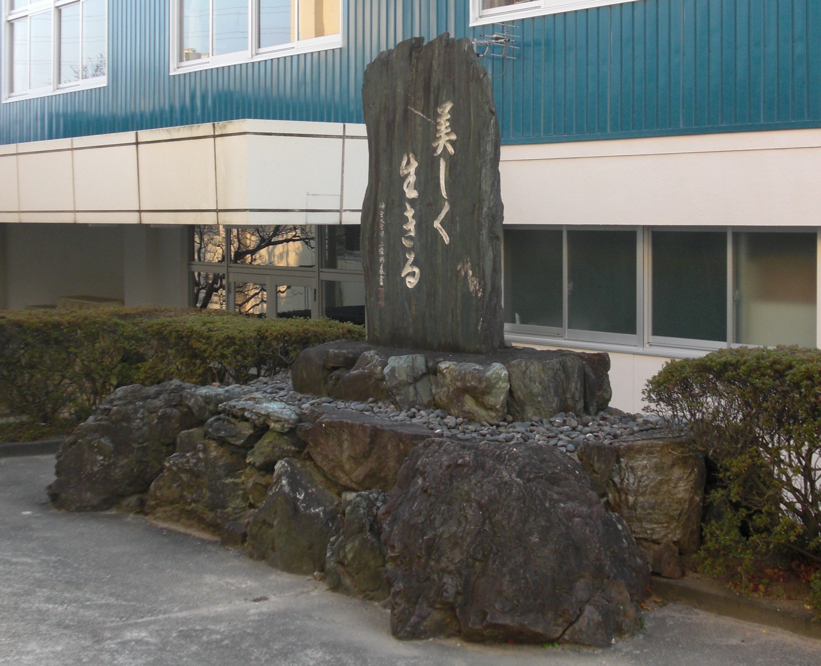 This is the monument of Ise Gakuen High School's motto "Living Beautifully". Ise Gakuen high School is in Ise, Mie, Japan.